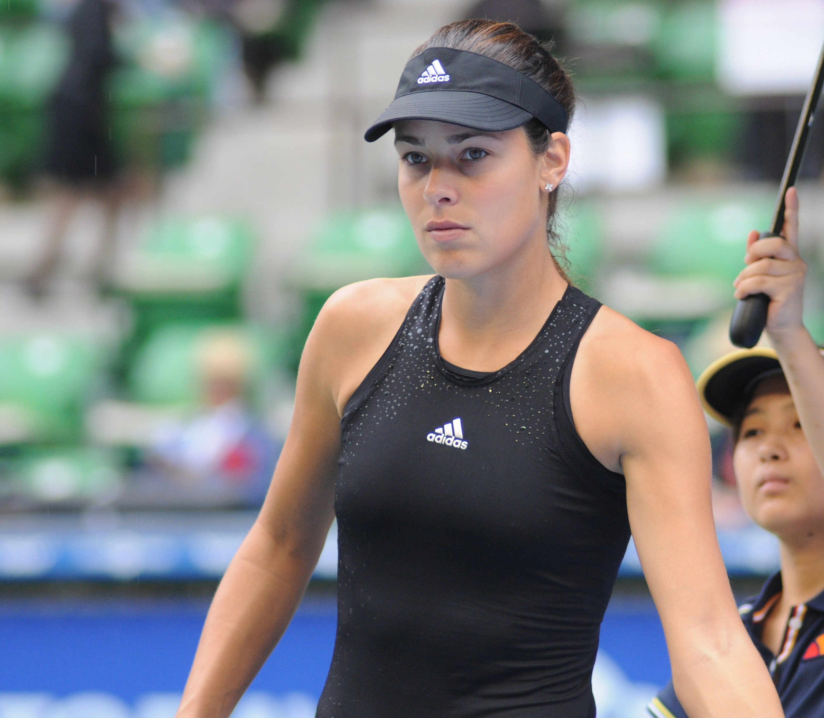 Ana Ivanović at the 2014 Toray Pan Pacific Open